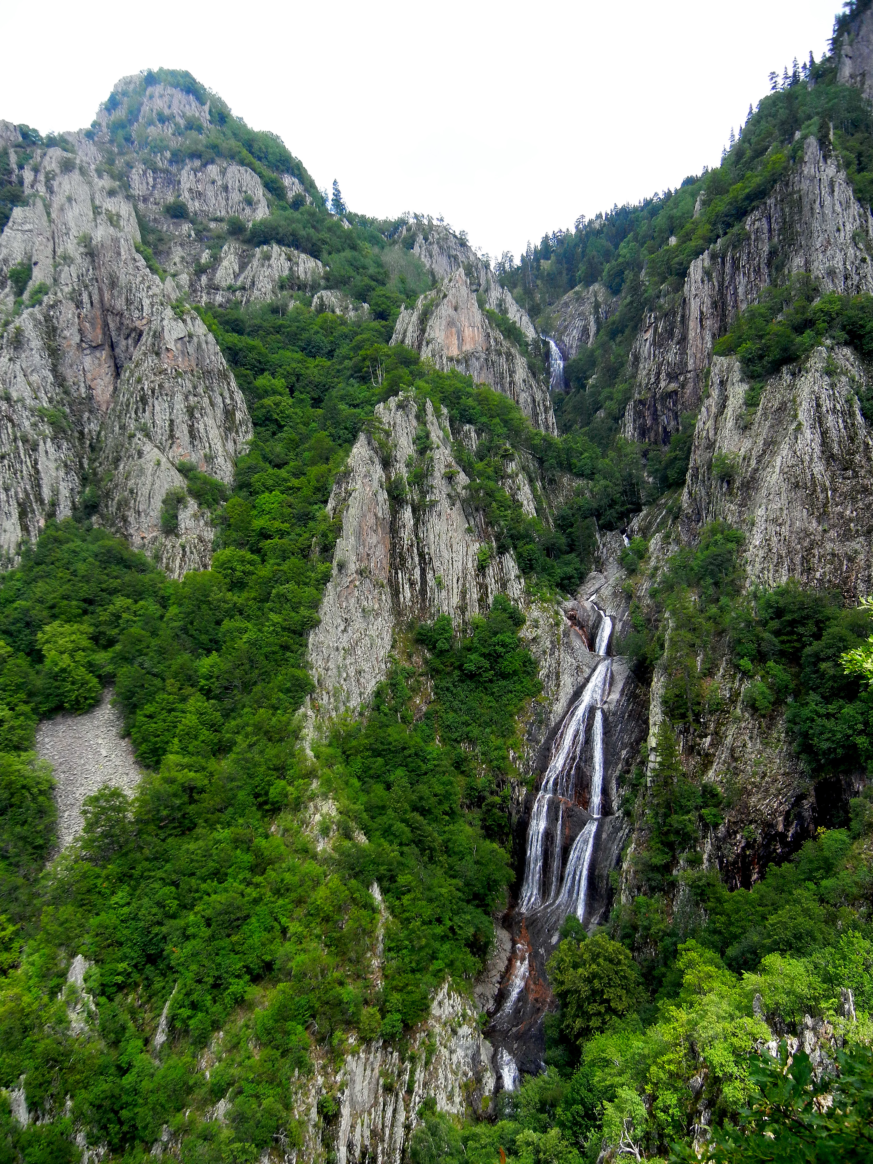 This is a photography of Natura 2000 protected area with ID GR1110003